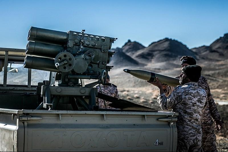 IRGC Ground Force Commandos in Pictures - TEHRAN (Tasnim) – Special unit of the Islamic Revolutionary Guard Corps (IRGC) Ground Force include skillful handpicked members.